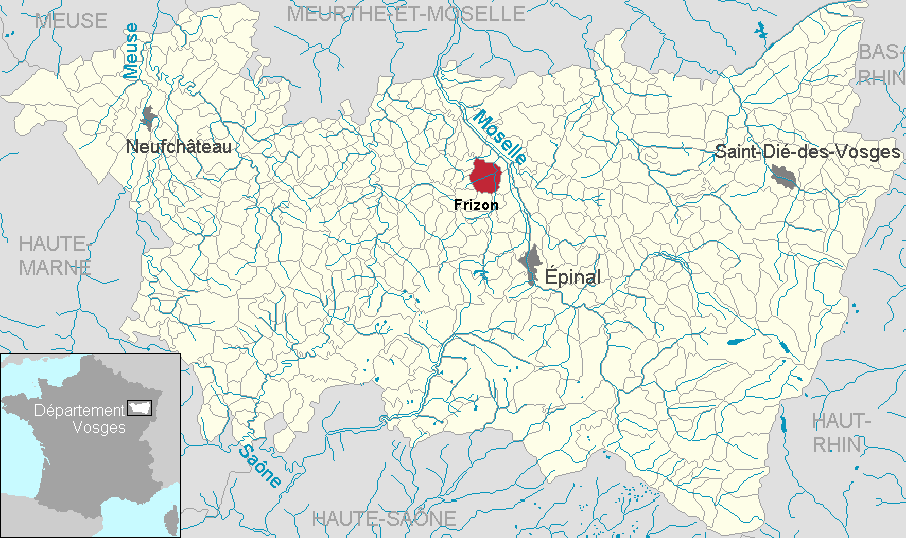 Frizon in the department of Vosges, Lorraine, France